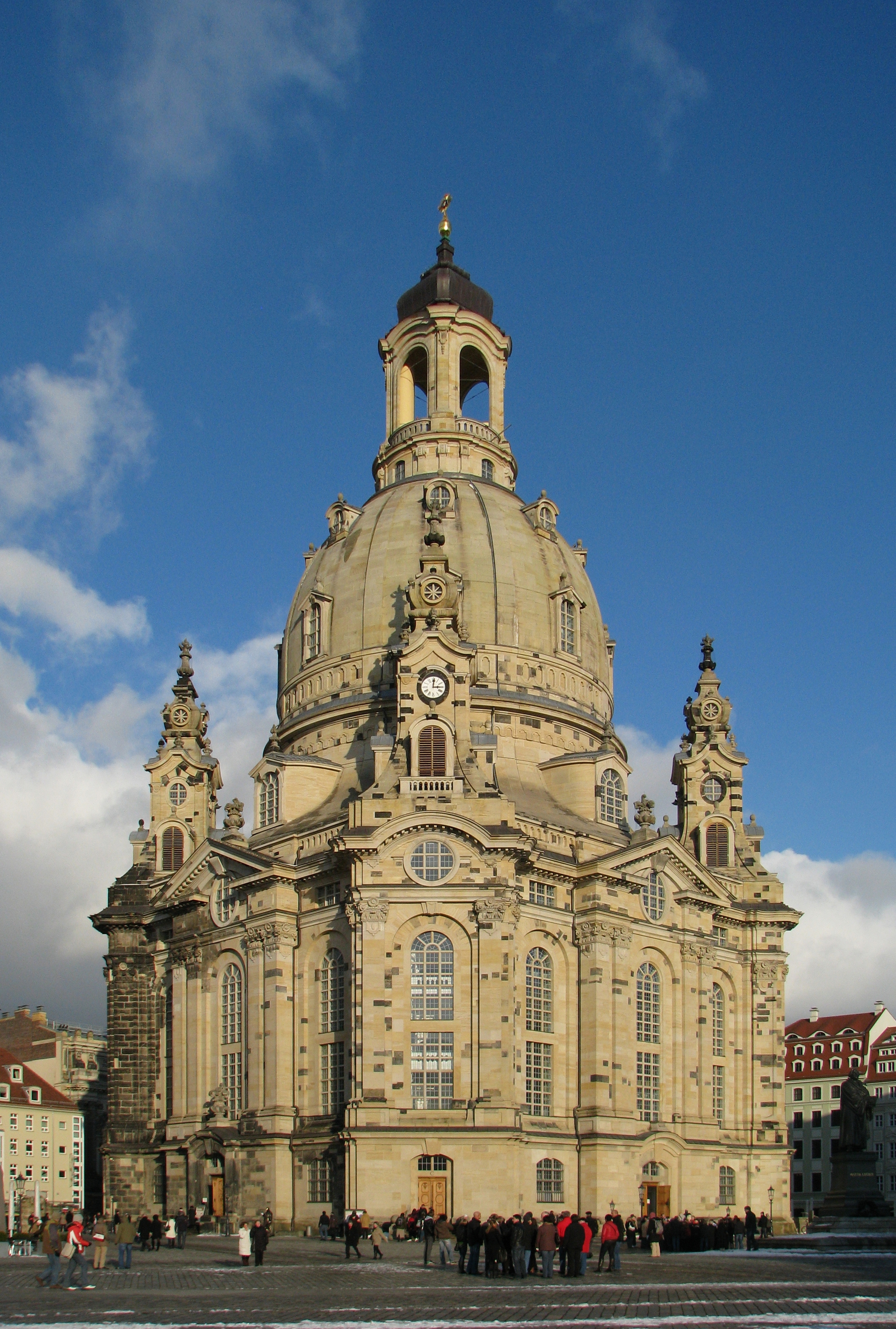 Dresden, Germany, rebuilt Frauenkirche in winter with blue sky